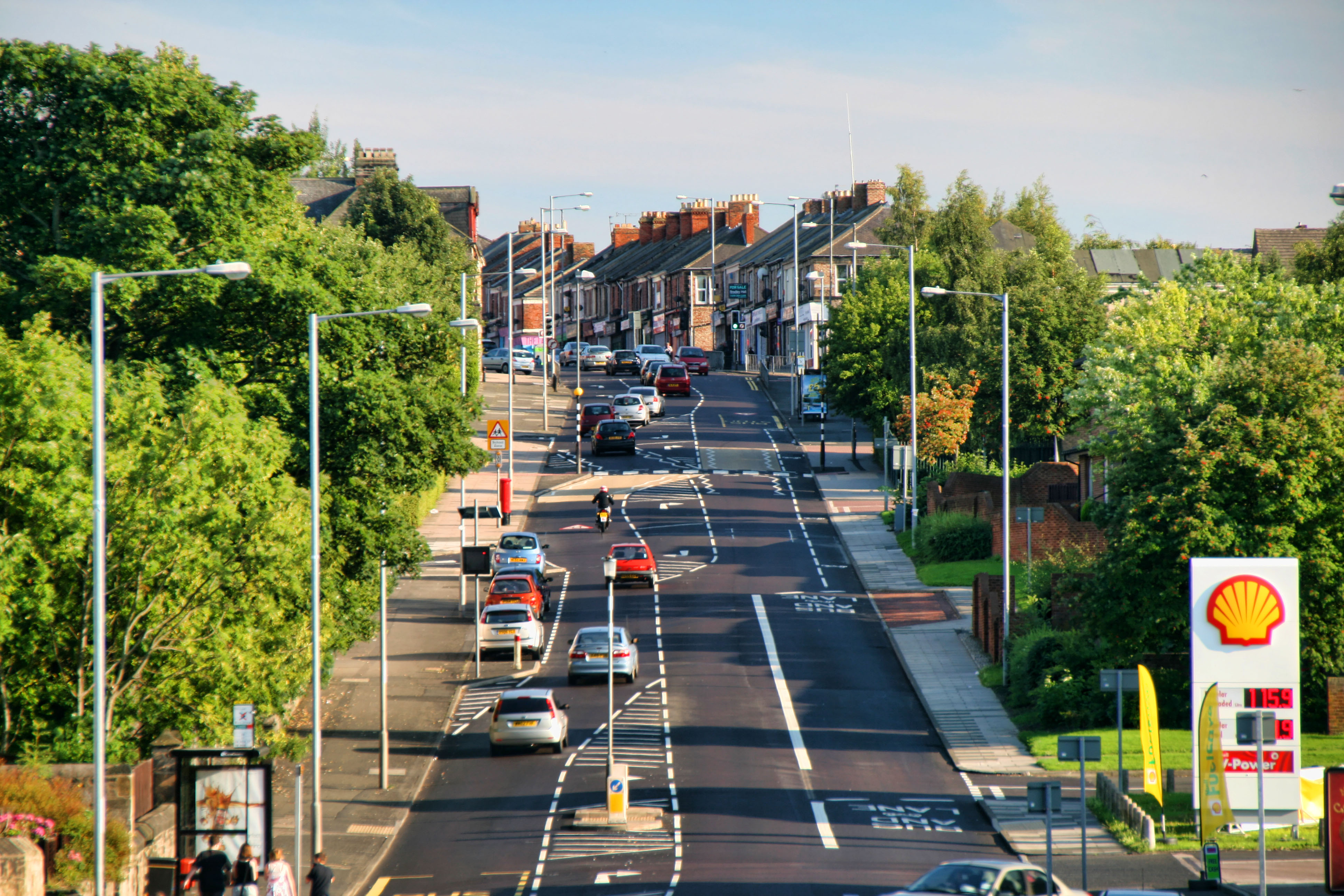 The Old Durham Road stretches from Gateshead roundabout up towards Deckham and beyond.